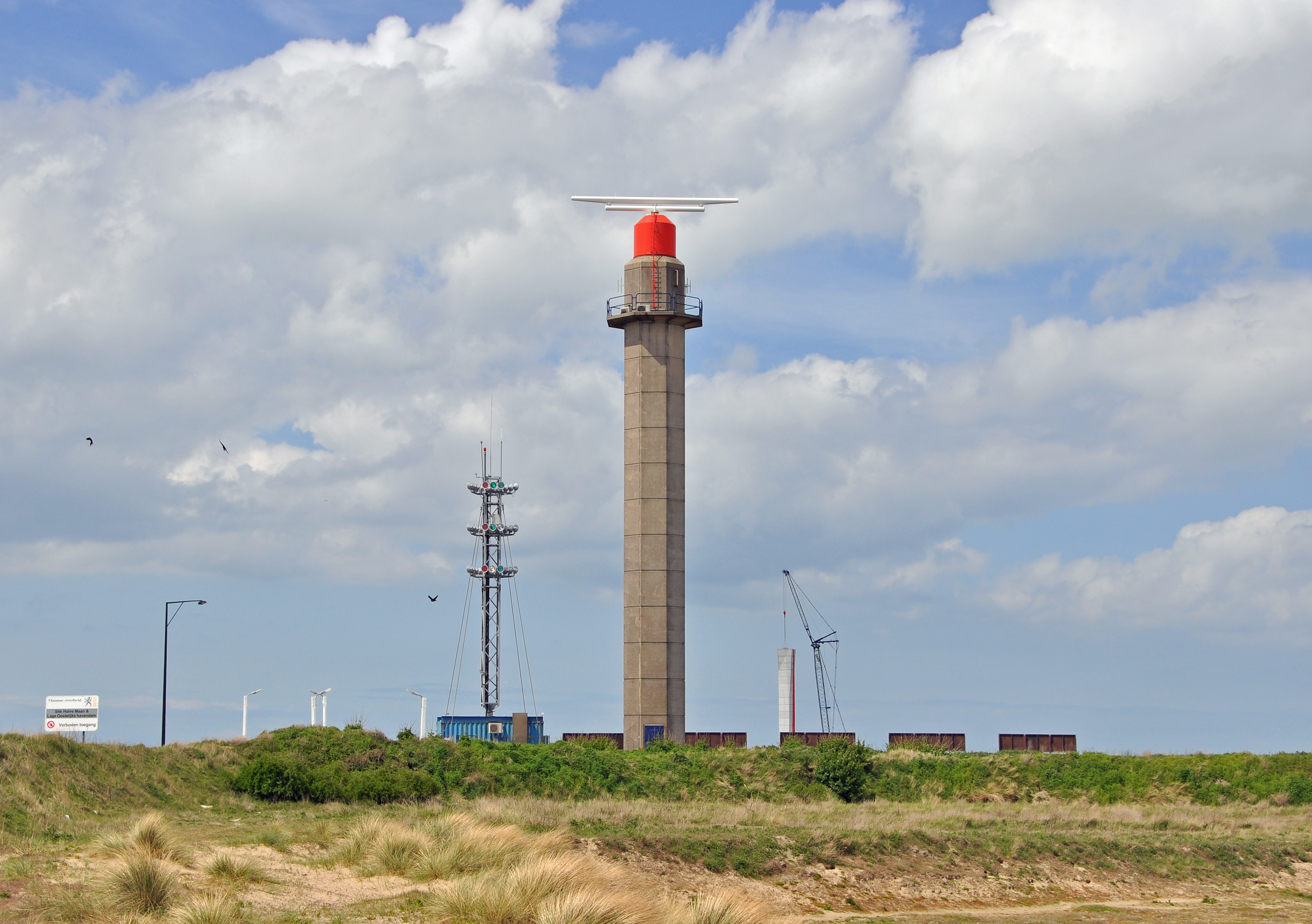 Ostend (Belgium): former radar tower of the Schelderadarketen (VTS for the Western Scheldt and the Belgian North Sea coast); demolished in 2019